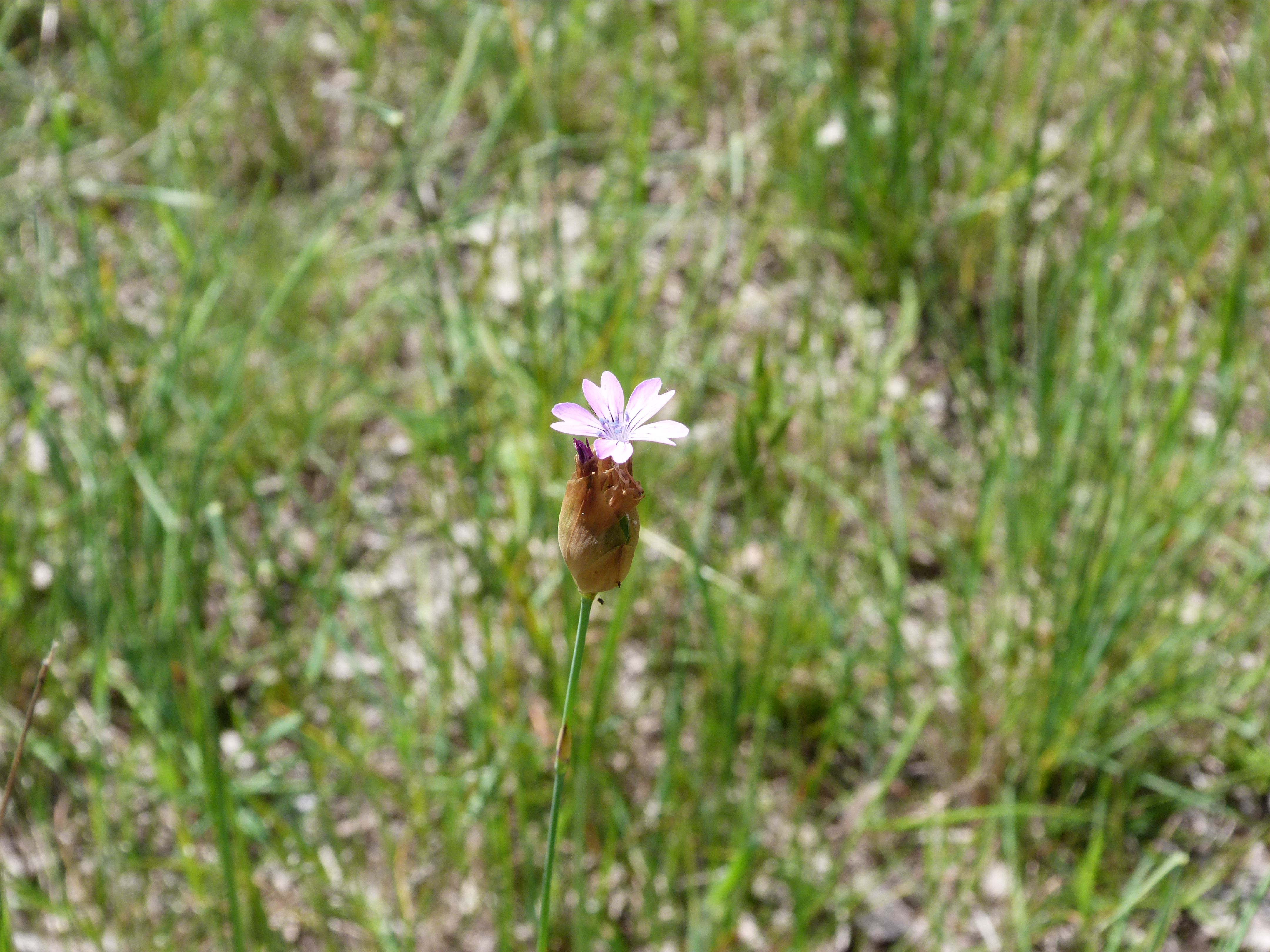 Petrorhagia nanteuilii (Burnat) P.W.Ball & Heywood, Black Mountain, Canberra, ACT, 27 October 2010